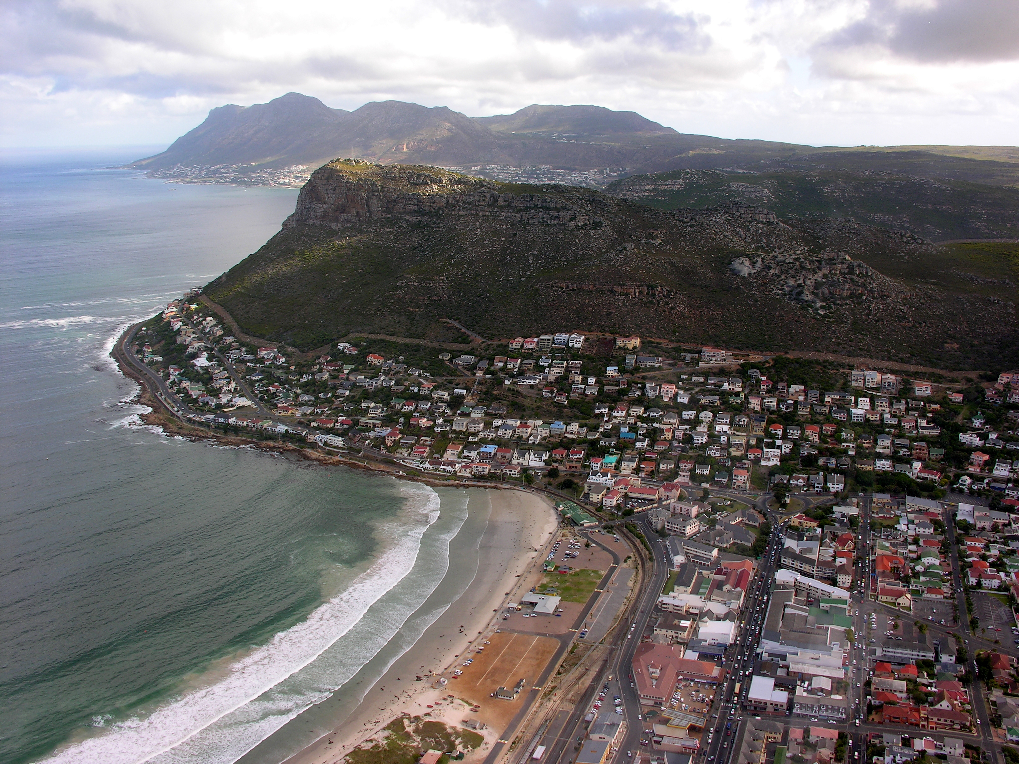 South Africa, Aerial views around Cape Town. For exact location see geocode.